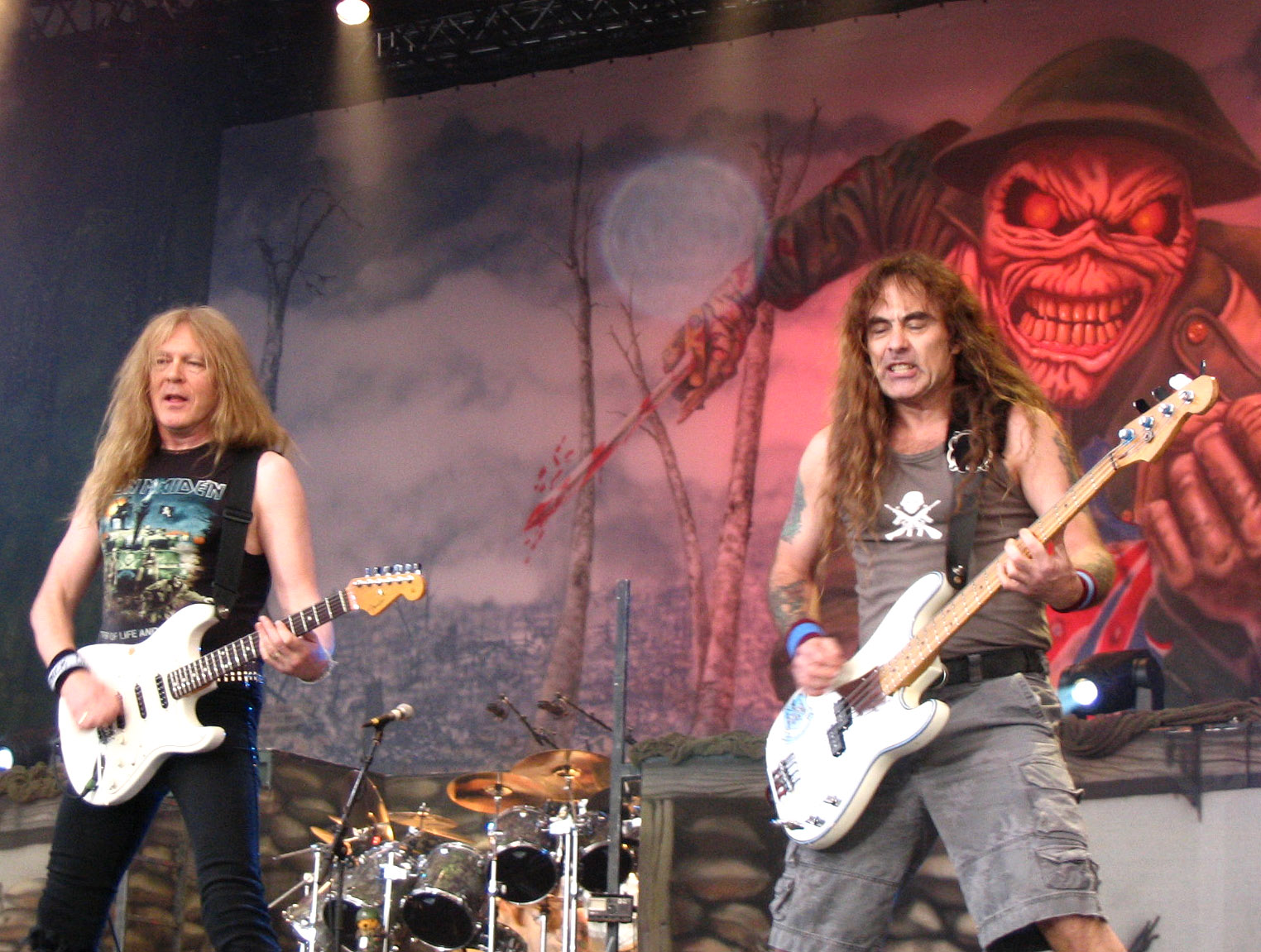 Janick Gers and Steve Harris at The Fields of Rock festival